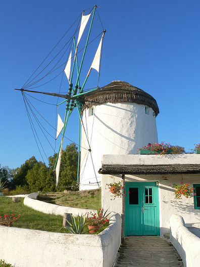 Greek mill at the mill museum in Gifhorn, Germany